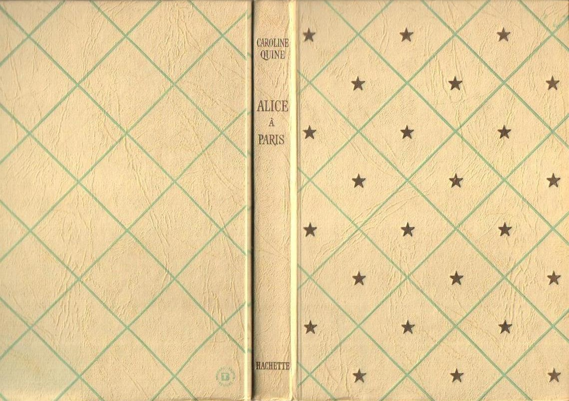 A copy of the "Idéal-Bibliothèque" collection without its dustwrap